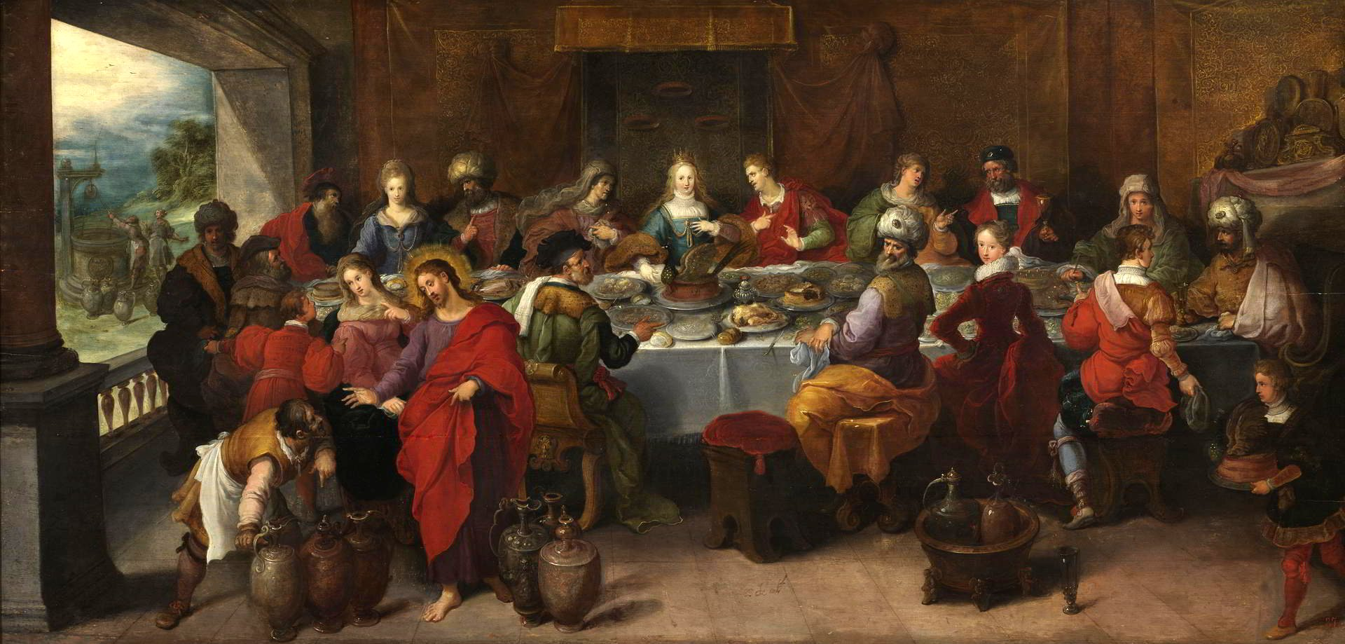 The Wedding at Cana by Frans Francken the Younger, c. 1618–20, Nationalmuseum, Stockholm